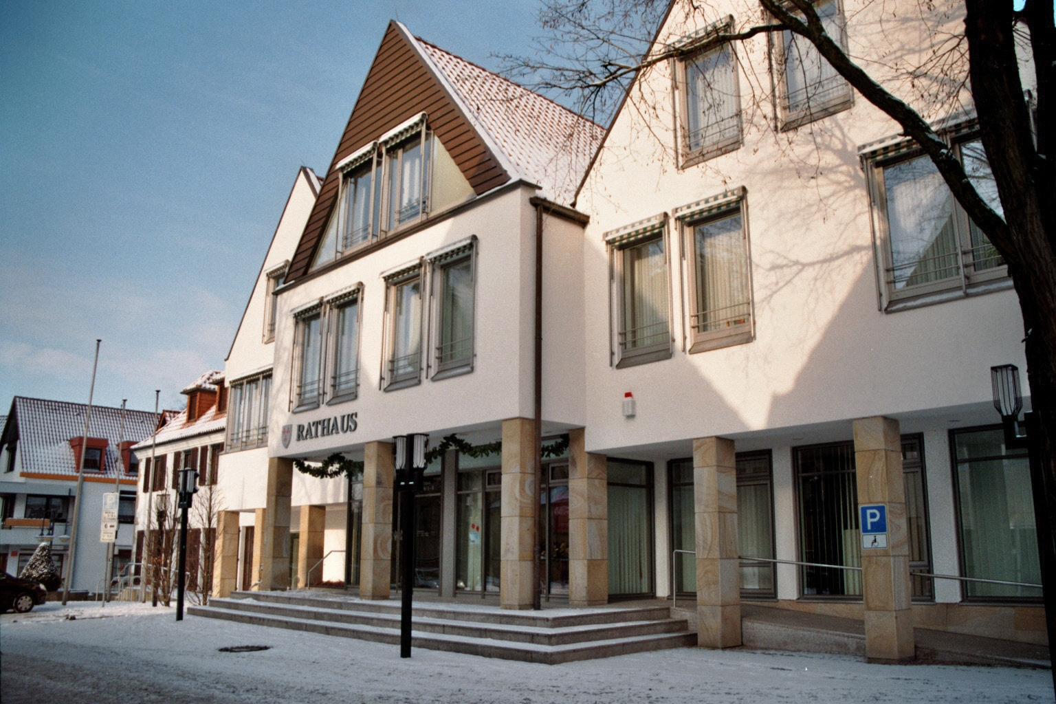 Town hall (Haus Telsemeyer, a former hotel) of Mettingen, Kreis Steinfurt, North Rhine-Westphalia, Germany.